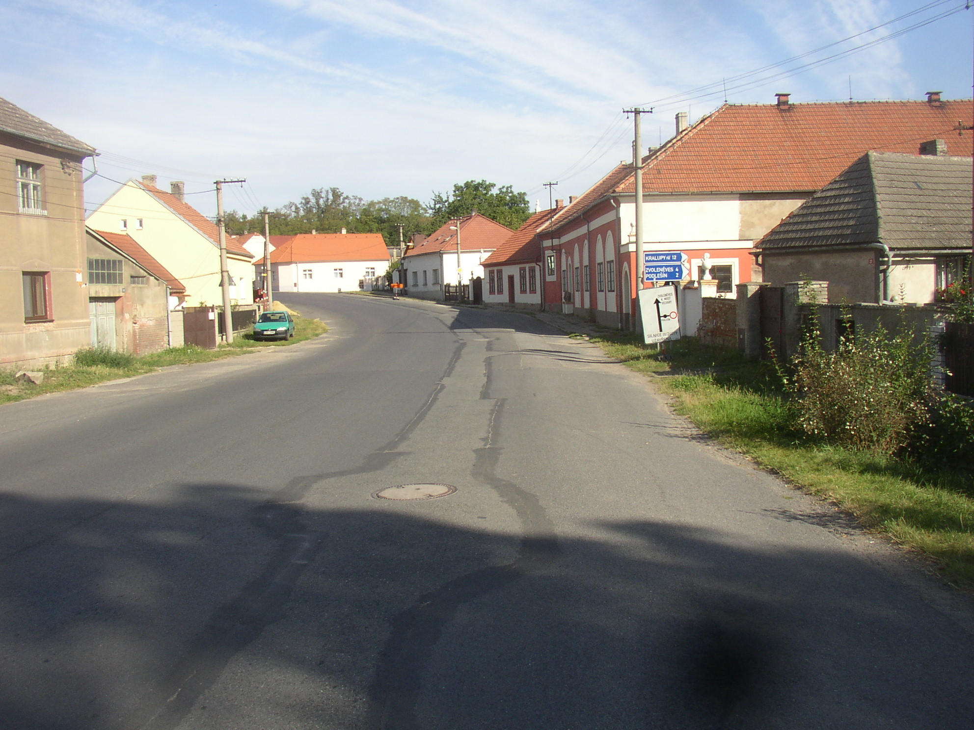 Thoroughfare in Knovízi, Kladno District, Czech Republic. A view from bridge over the Knovízský potok towars north. In the right foreground is a former cinema which nowadays houses the ATHANOR studio of filmmaker Jana Švankmajer.